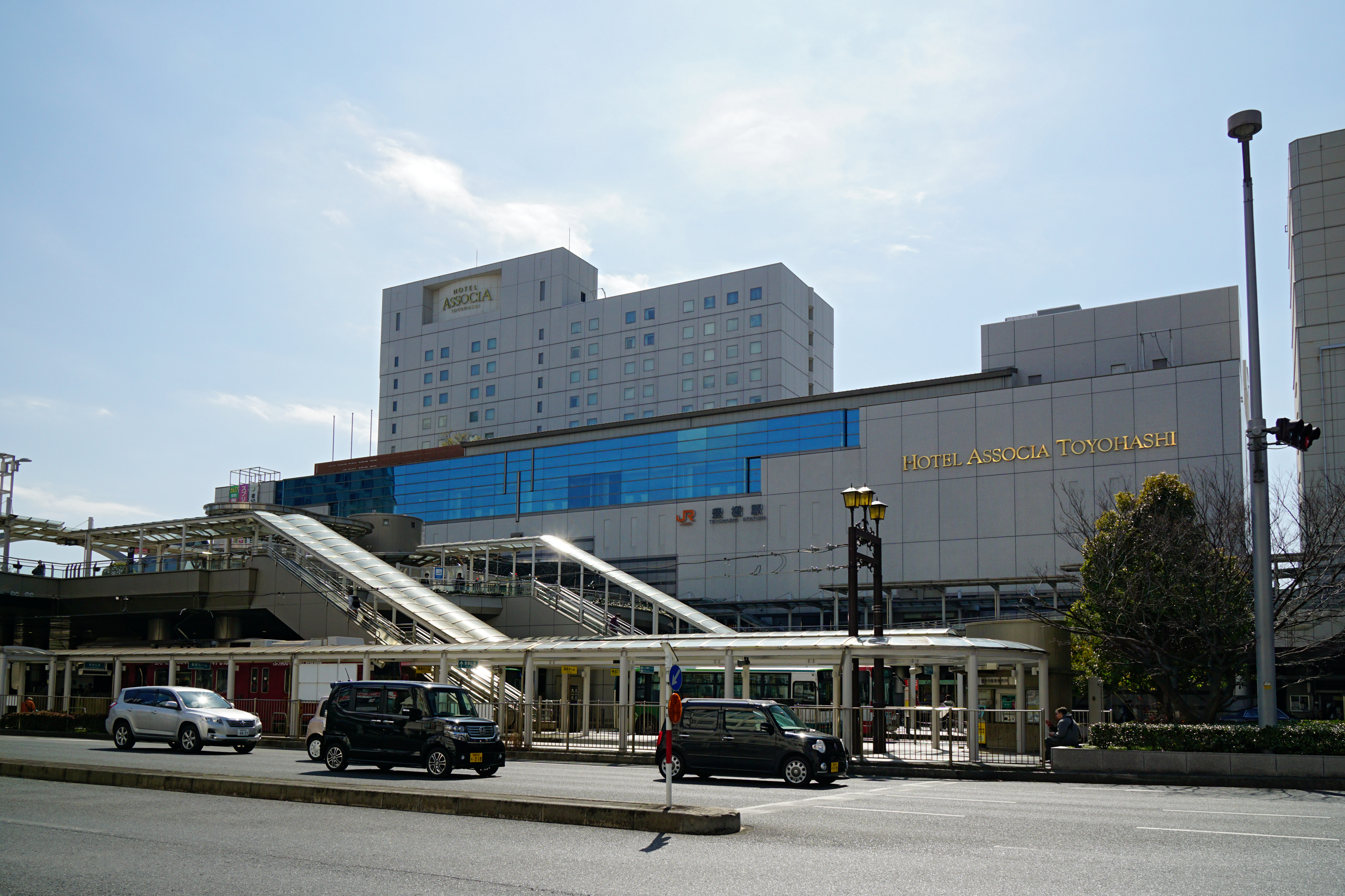 Toyohashi Station in Toyohashi, Aichi prefecture, Japan